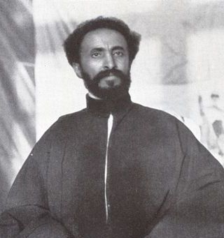 Ethiopian Emperor Haile Selassie in February 1934. Crop of photograph by Swiss pilot and photographer Walter Mittelholzer (1894-1937).